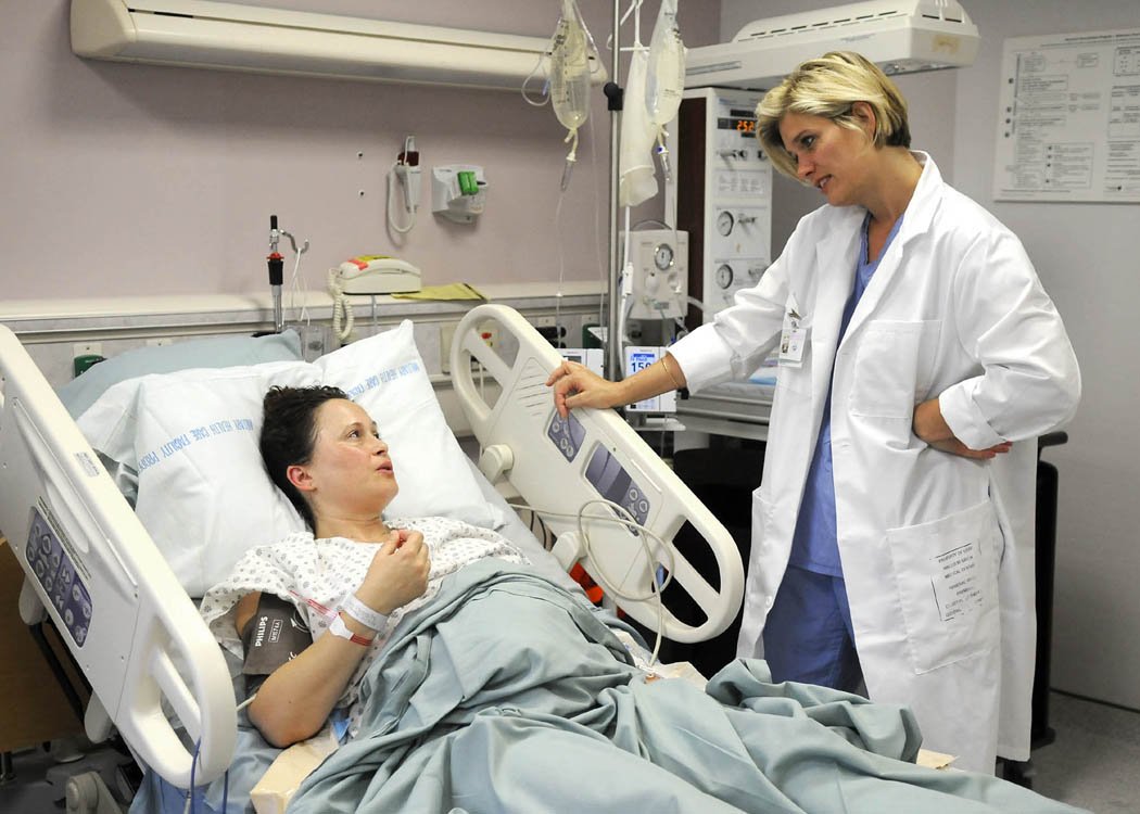 Major Christine Gundel, 779th Medical Group nurse midwife, checks on Monica McCoy, Public Affairs Specialist for Naval Sea Systems Command in Washington D.C. and patient at the Maternal Child Unit at Malcolm Grow Medical Center, before her scheduled cesarean-section. (USAF photo by Tech. Sgt. Suzanne M. Day)